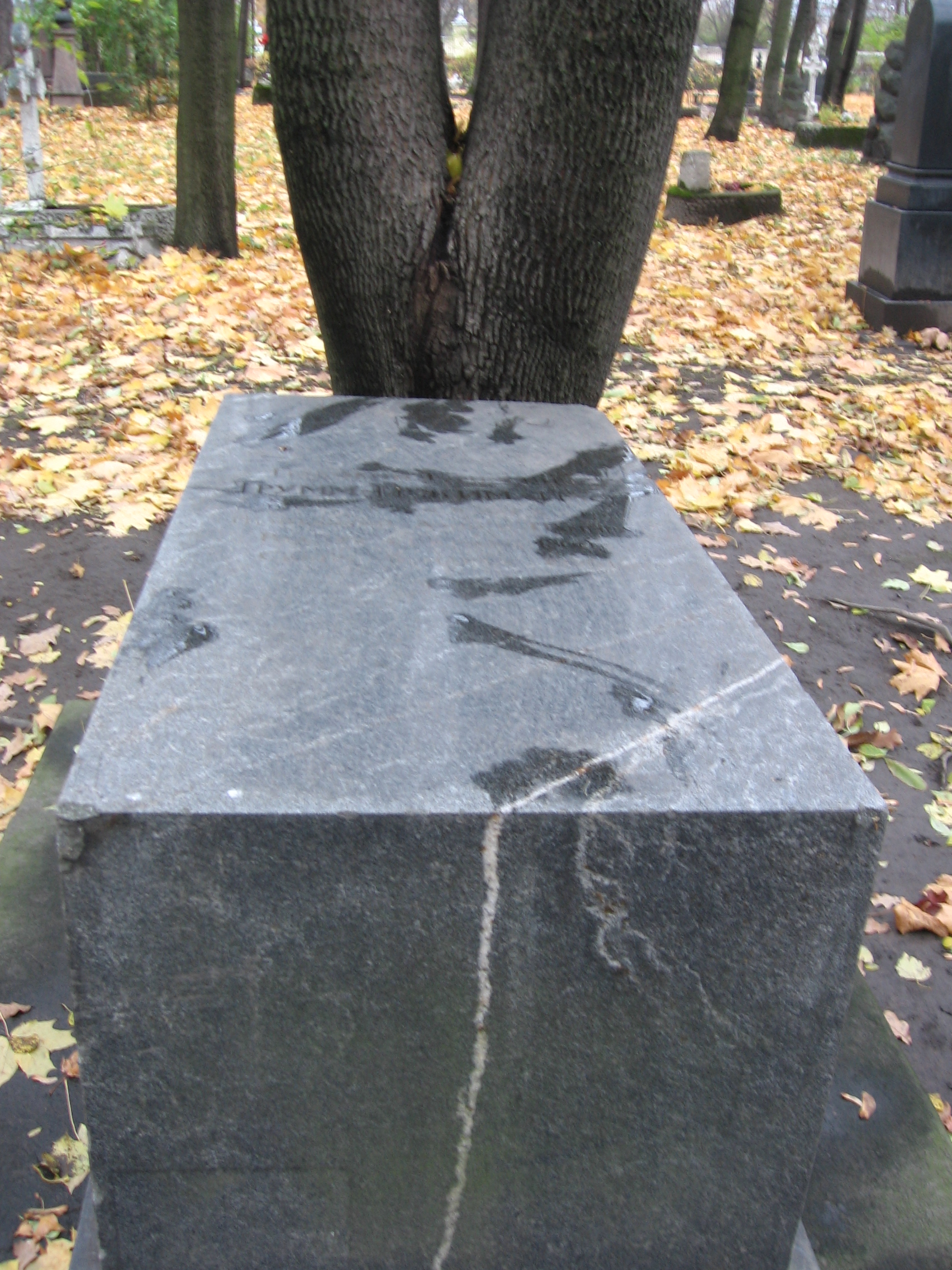 Grave of Grigory Grum-Grzhimailo